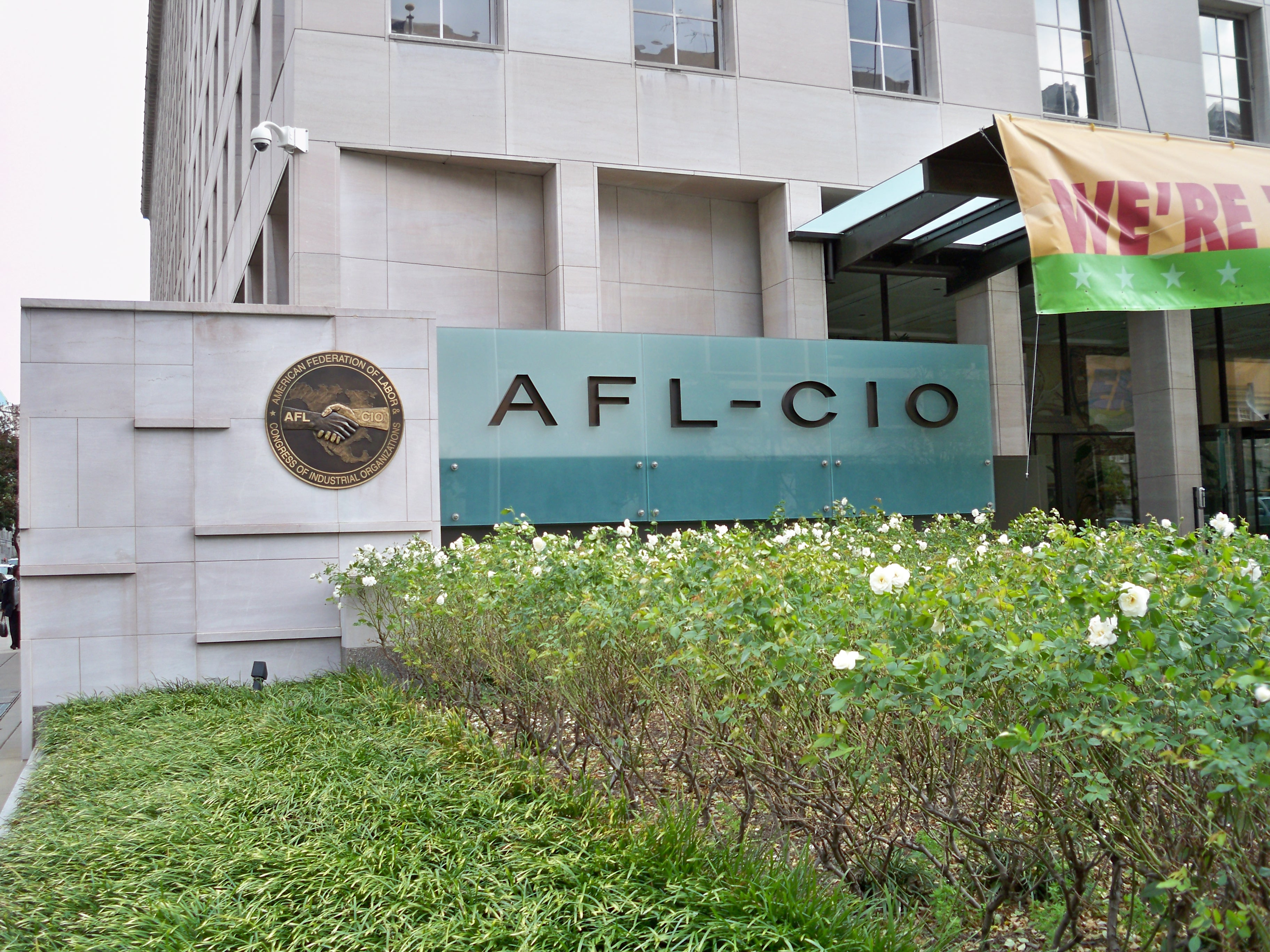 AFL-CIO headquarters in Washington, DC near the White House.